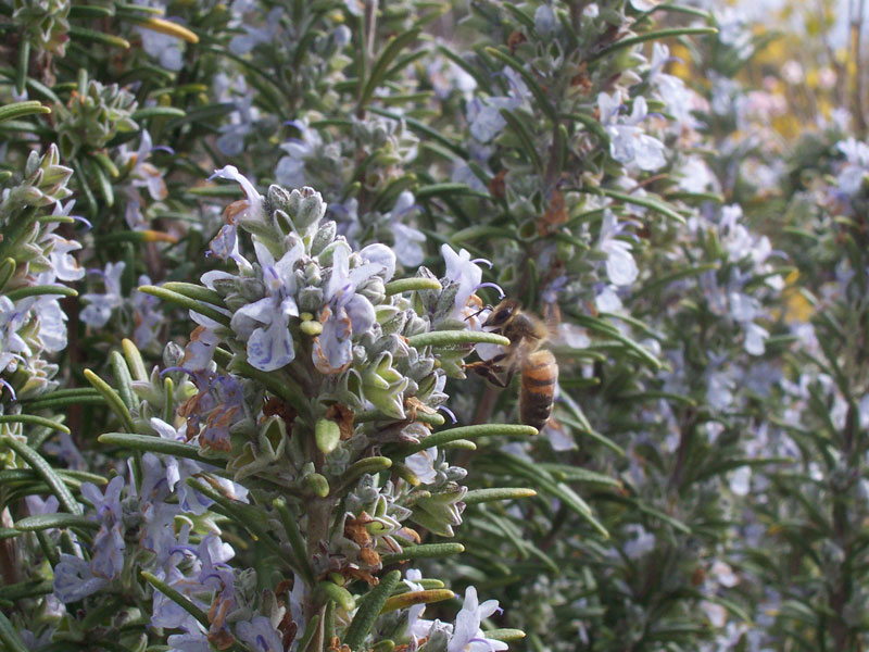 Rosemary Flowers Permission is granted to copy, distribute and/or modify this document under the terms of the GNU Free Documentation License, Version 1.2 or any later version published by the Free Software Foundation; with no Invariant Sections, no Front-Cover Texts, and no Back-Cover Texts. Subject to disclaimers. Subject to disclaimers.